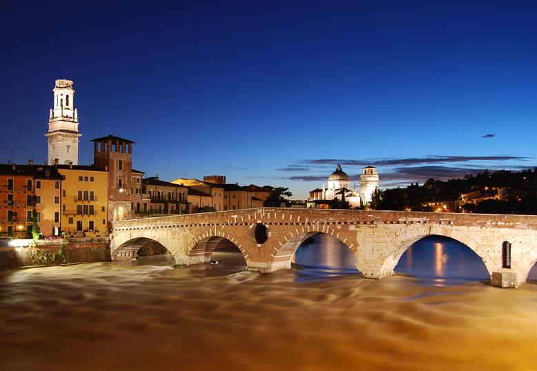 Ponte Pietra at sunset